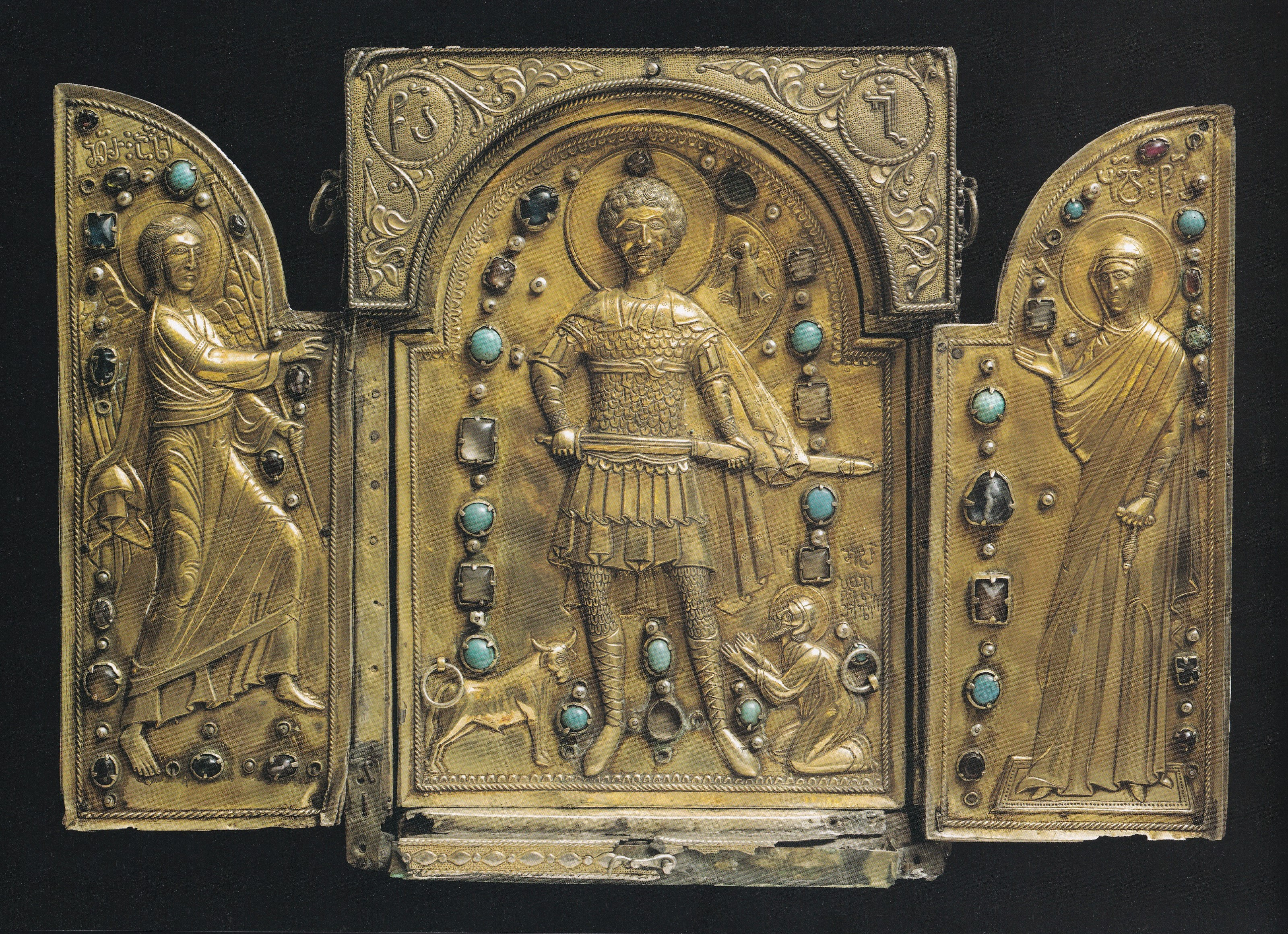 The Ilori Icon of st. George